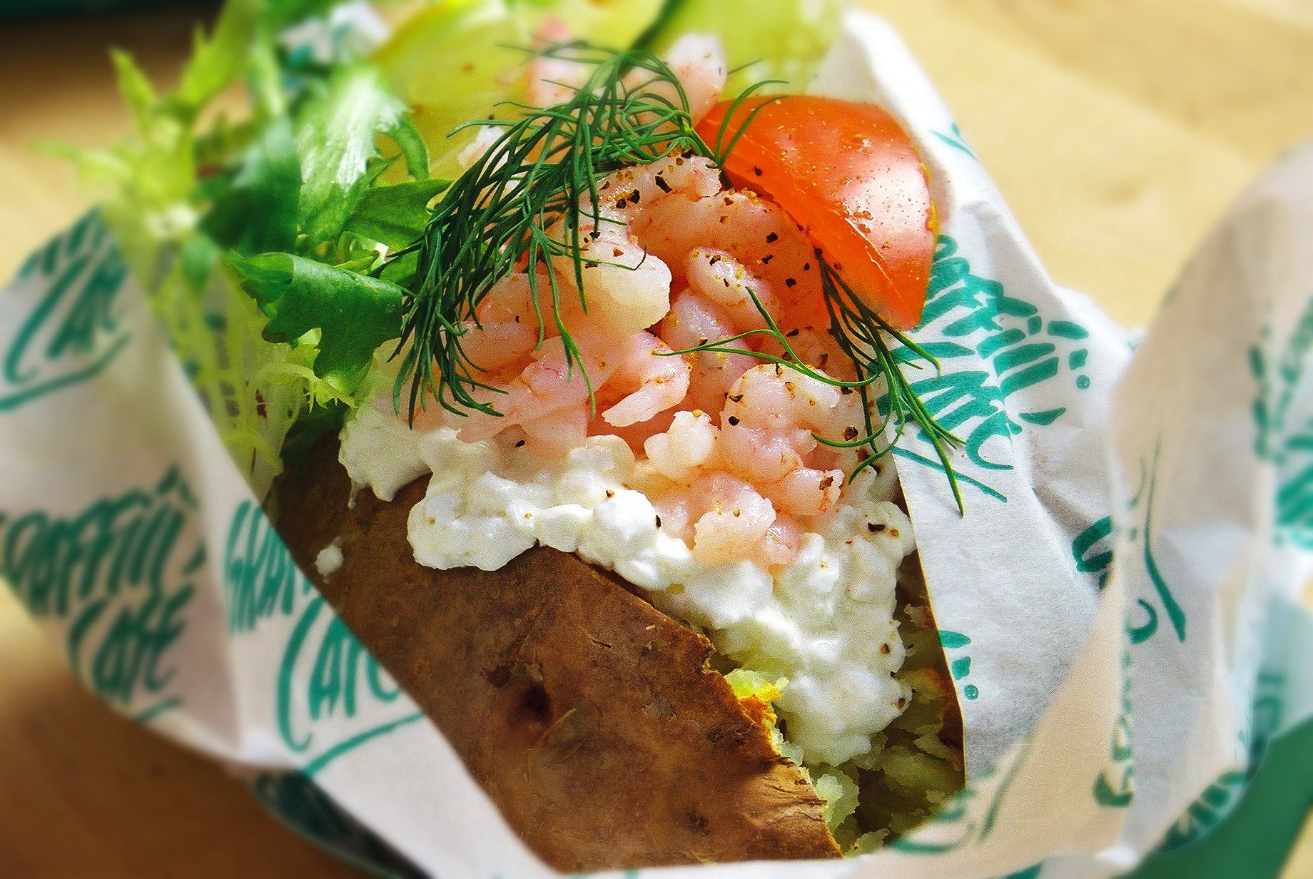 Owen baked potato from Graffiti Café